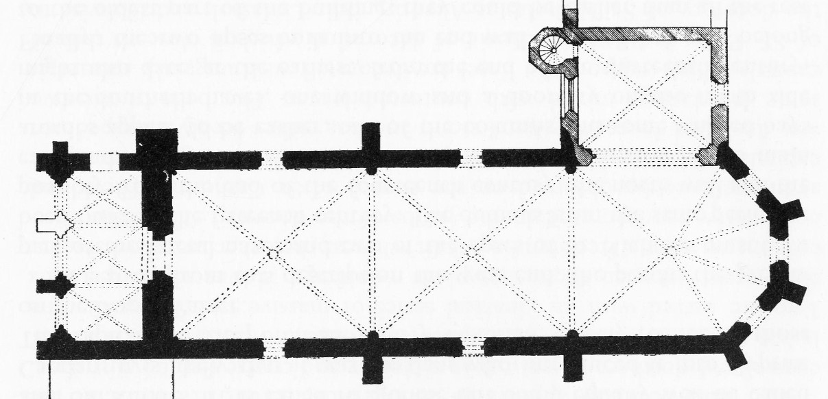 Omeriye Mosque, Nicosia